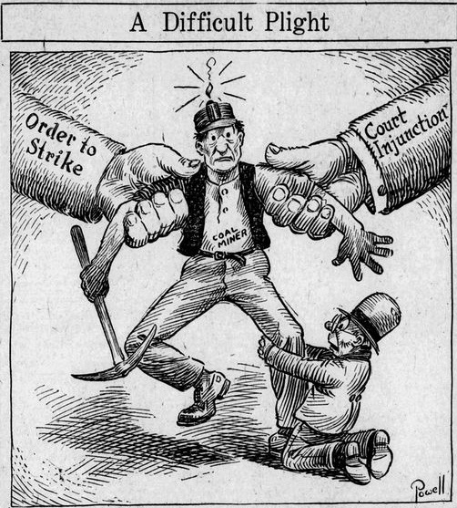 Nov 2 1919 Omaha Daily Bee Who should the American miner listen to? The federal government or the United Mine Workers?